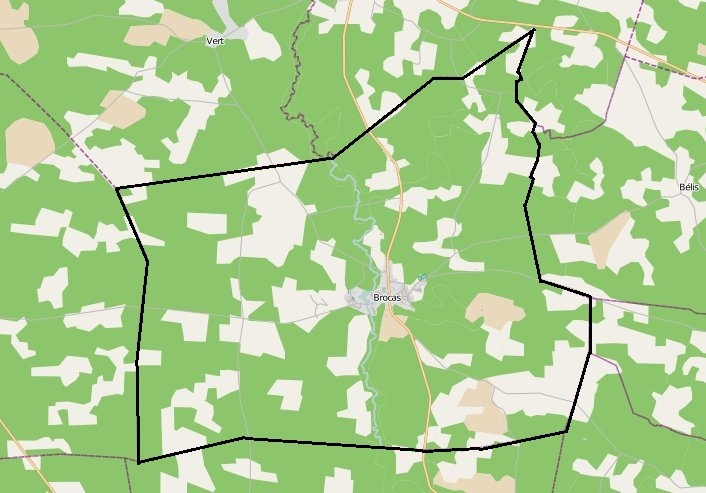 Geolocalisation: top: 44.0979 bottom: 44.0979 left: -0.6336 right: -0.4559